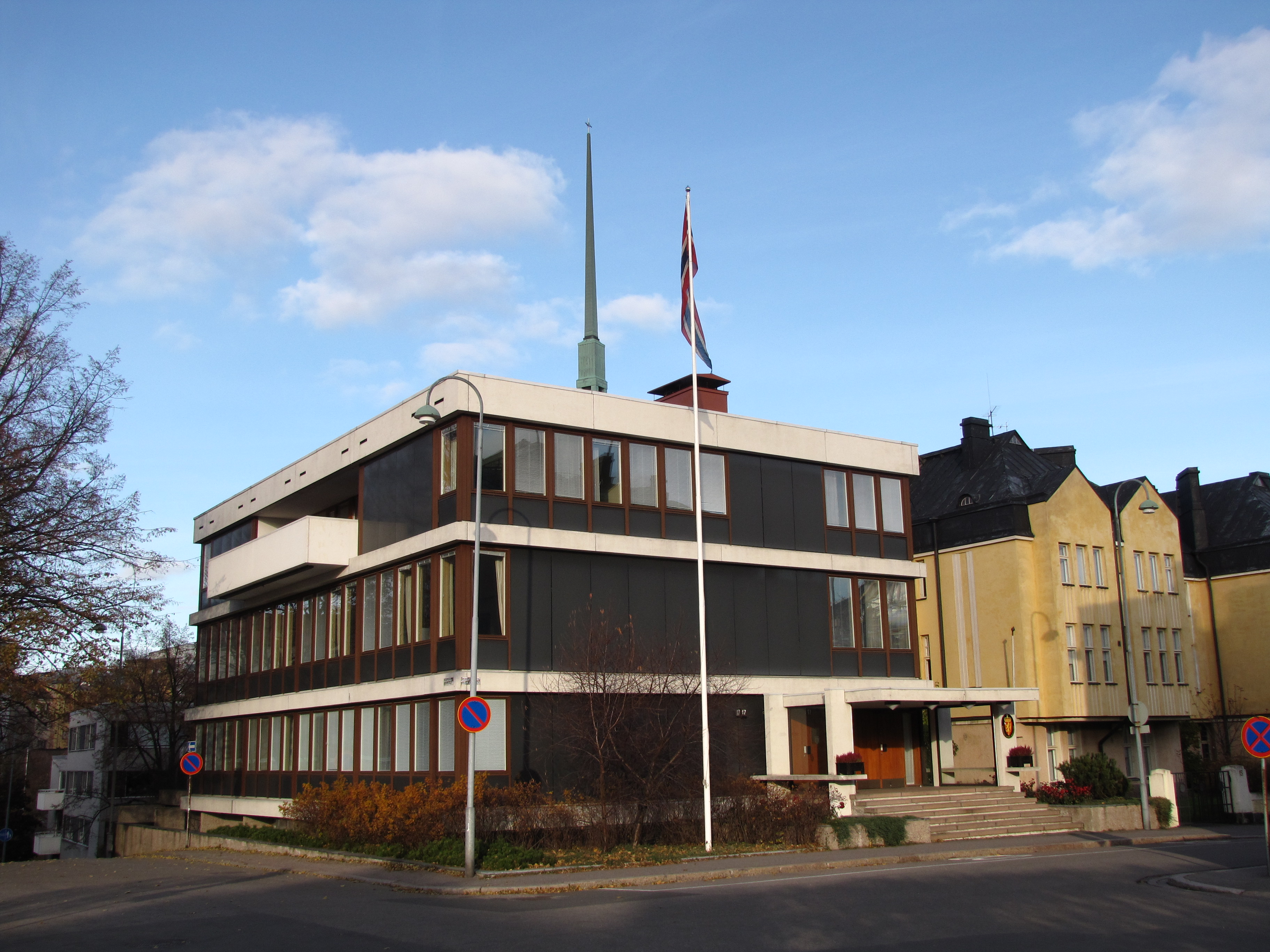 Embassy of the Kingdom of Norway in Helsinki, Finland. Address Rehbinderintie 17, Eira. Spire of the Agricola church tower in the background.